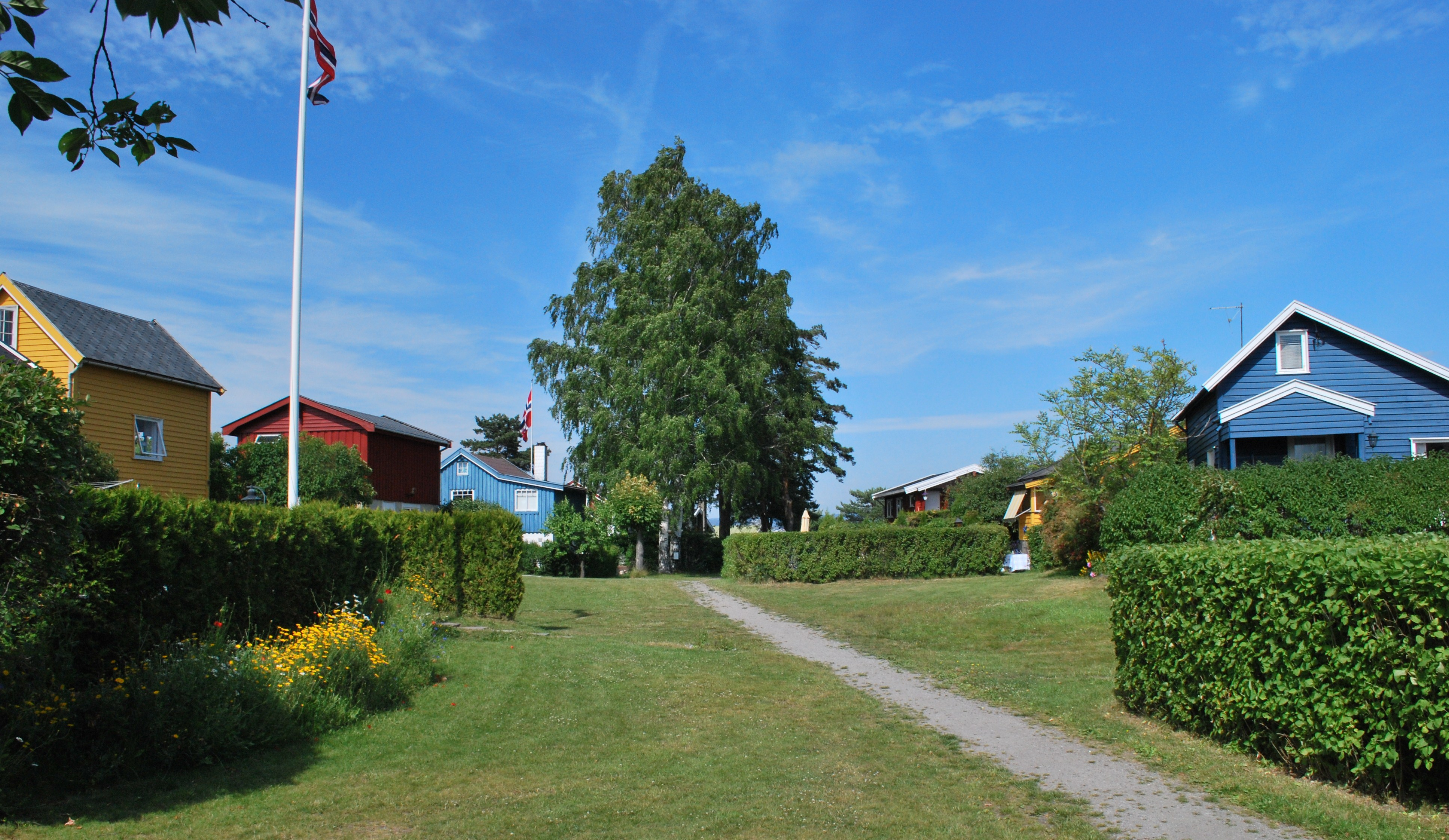 Cottages (summer houses (Norw. hytter) on island Nakholmen, Oslo